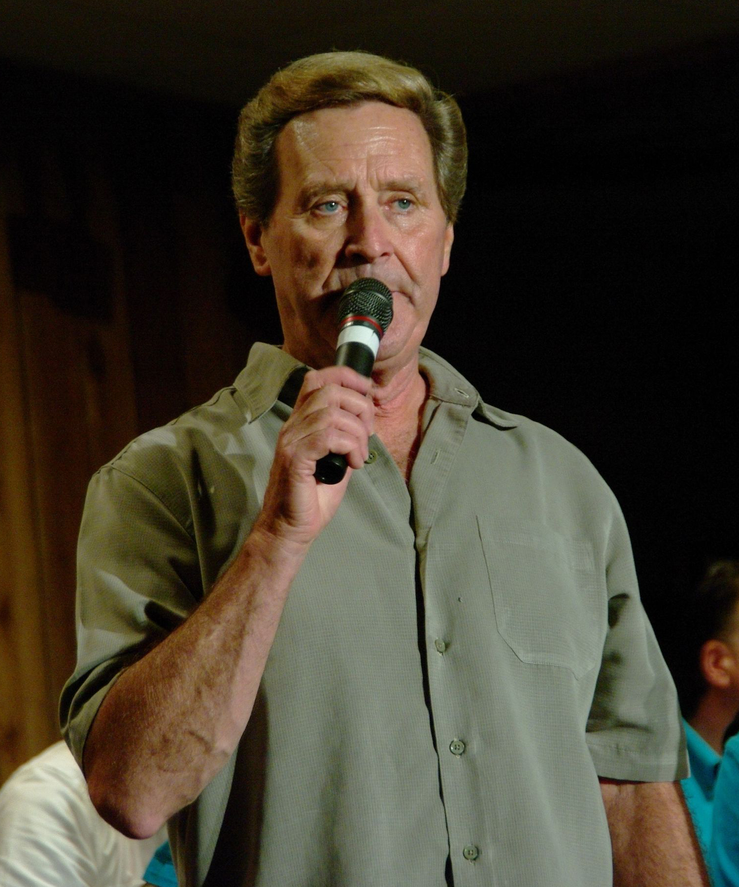 Jimmy Sturr famous polka artist